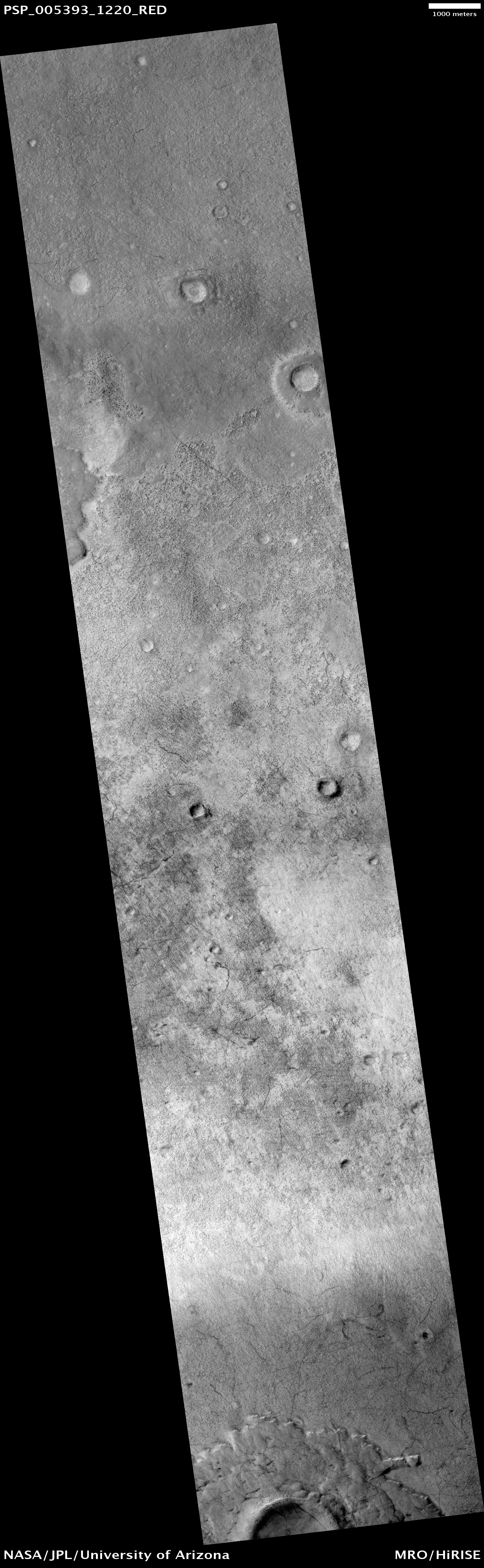 Secchi Crater Floor with pedestal crater, as seen by hirise. location is 57.7 degrees south latitude and 101.5 degrees east longitude. Image was taken by the Mars Reconnaissance Orbiter's HiRISE. The HiRISE camera was built by Ball Aerospace and Technology Corporation and is operated by the University of Arizona. Image courtesy NASA/JPL/University of Arizona.